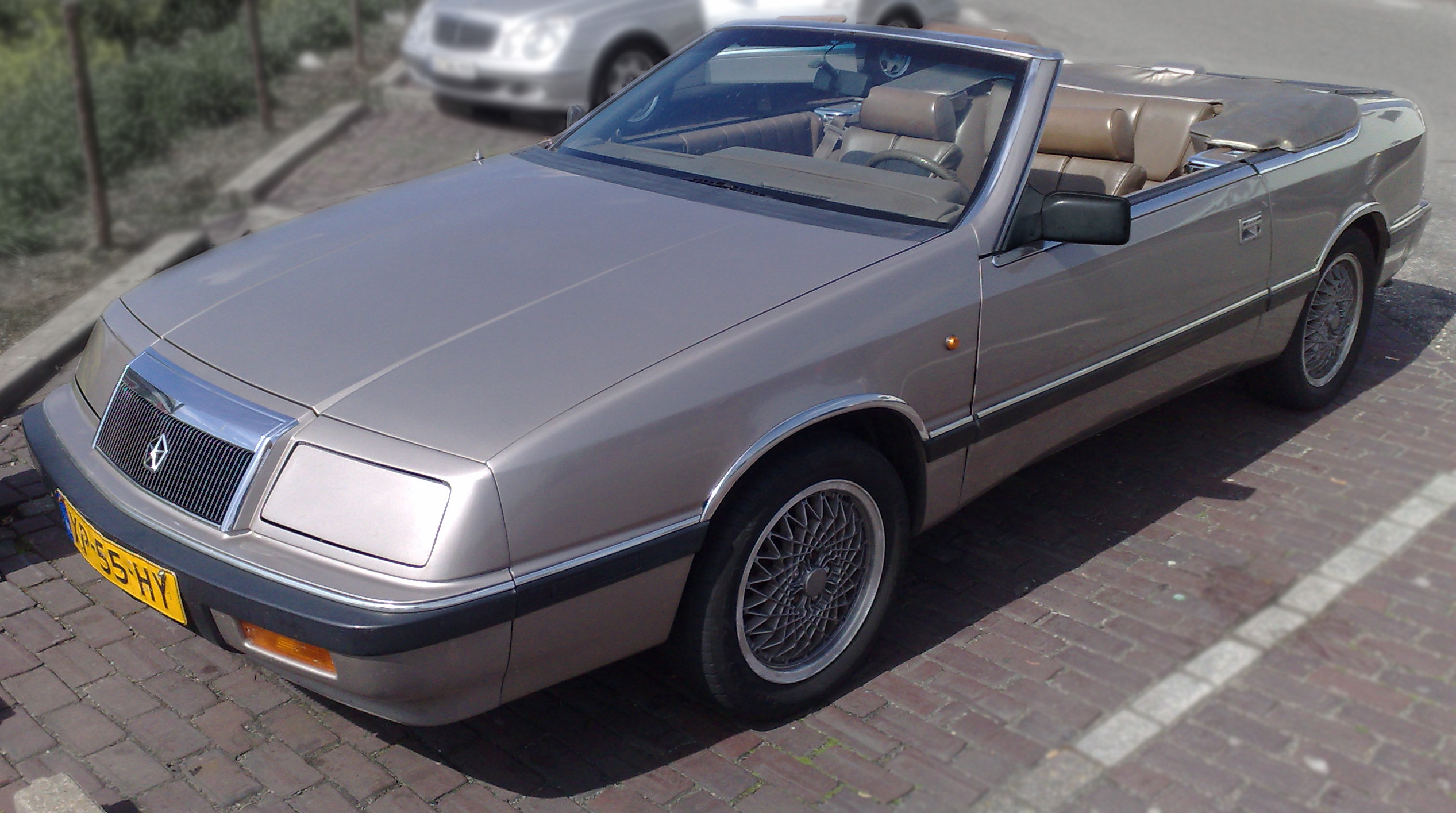 1989 Chrysler LeBaron convertible with 2.5L 4 cylinder inline engine. The top is down and covered with an original boot cover colored in the car's body color.